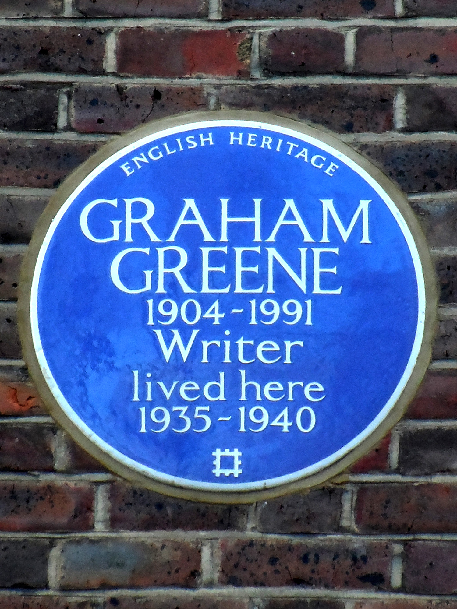 Blue plaque erected in 2011 by English Heritage at 14 Clapham Common North Side, Clapham, London SW4 0RF, London Borough of Lambeth